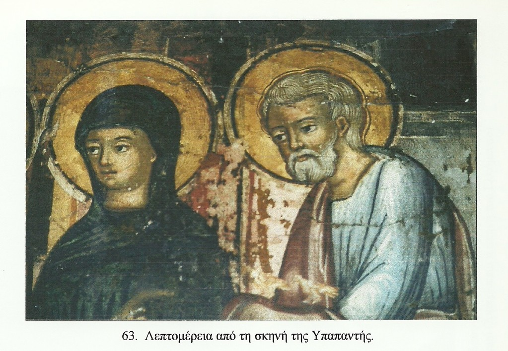 Fresco in St Marina Church in Agia Marina, Imathia, Greece.